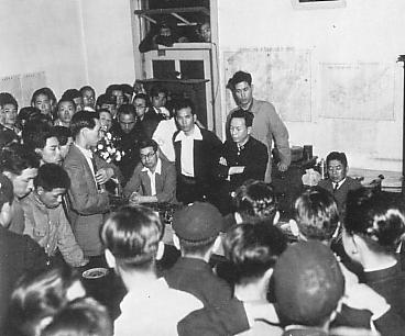 Taira Incident